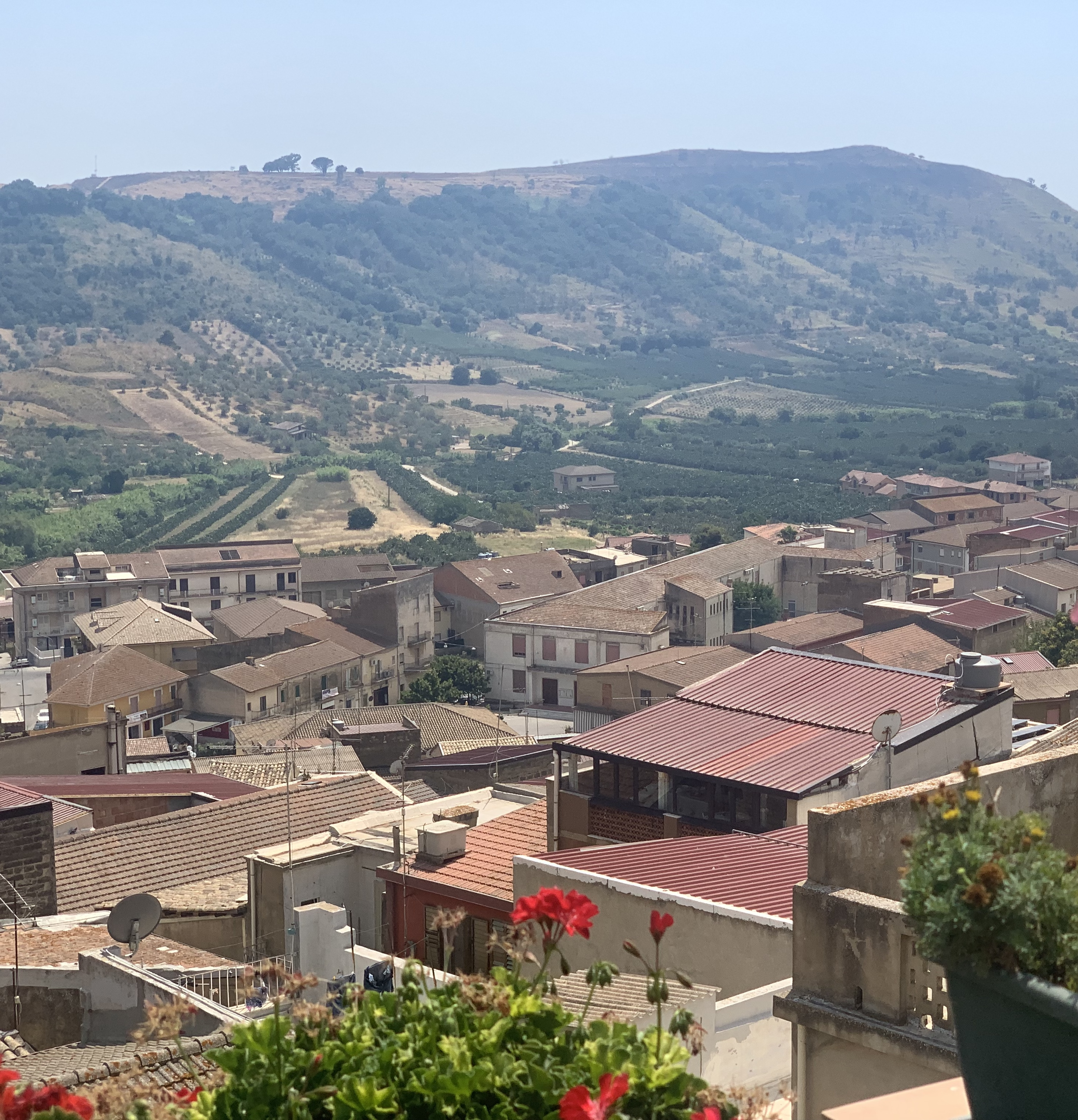 High Altitude photo of San Cono